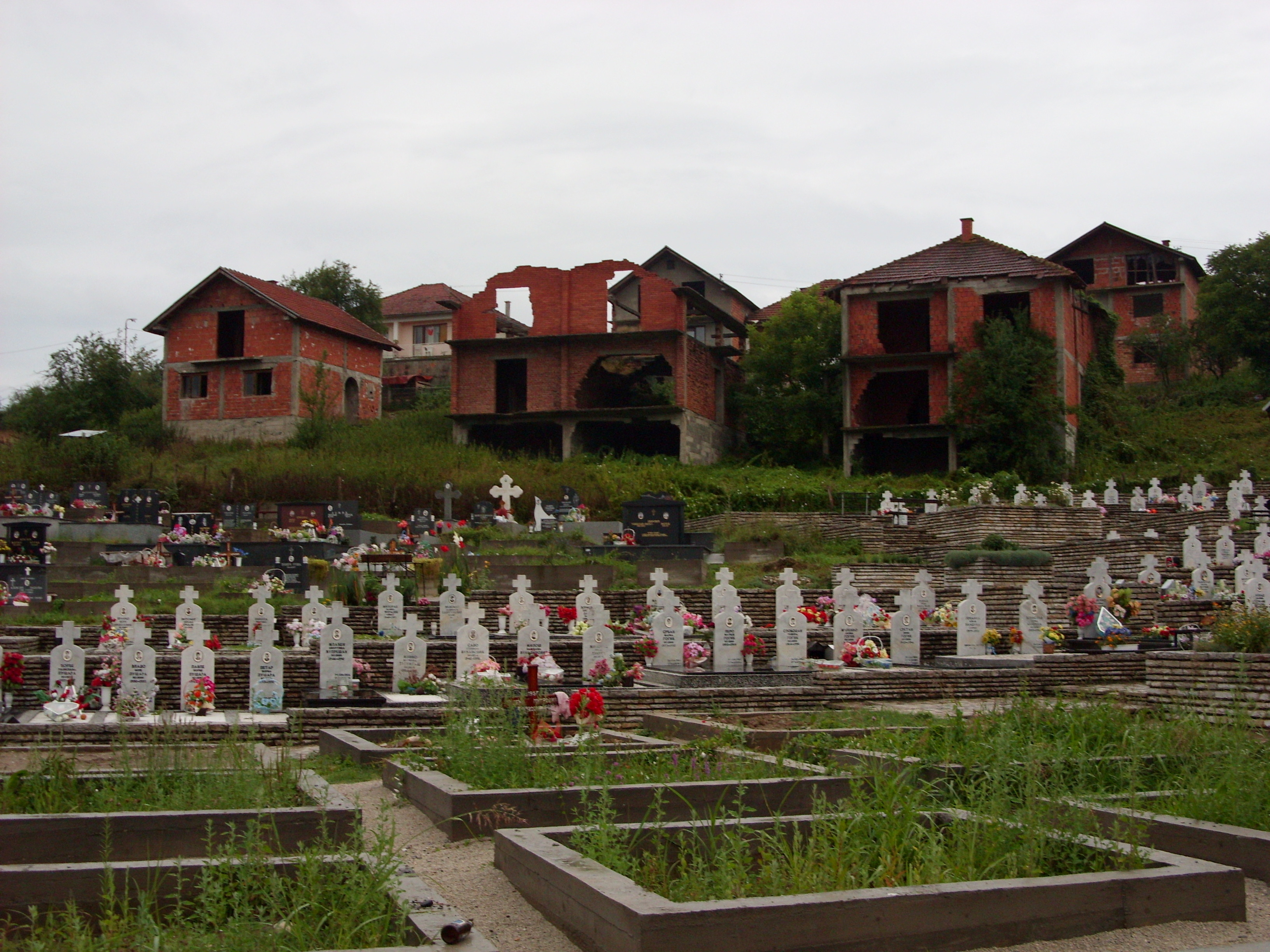 Serbian graveyard and abandoned houses in Bratunac, East Bosnia.